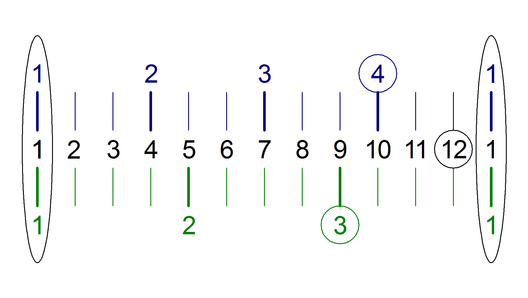 Cross-rhythm: Quartuplet (four) over three (triplet).